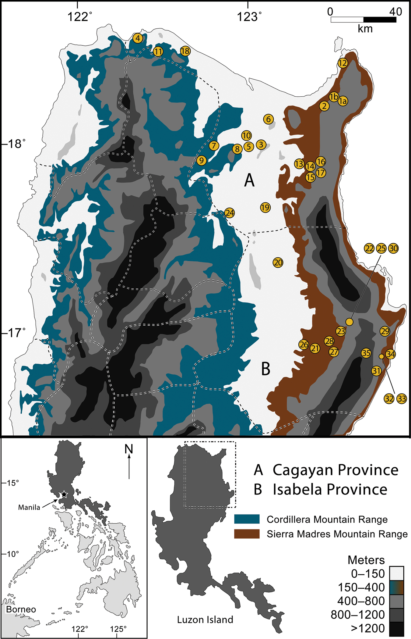 Map of northern Luzon Island, Philippines, with the Sierra Madre and Cordillera mountain ranges indicated (contour shading depicts elevational increments; see key, lower right). Provincial boundaries are indicated with dashed lines. Sampling localities marked with numbered circles, corresponding to localities listed in Table 1. The inset (bottom left) shows the location of Luzon Island (darkly shaded) within the Philippines.